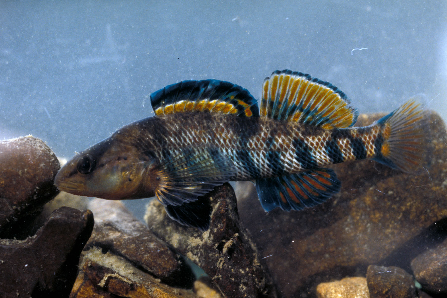 Etheostoma caeruleum USFWS photo